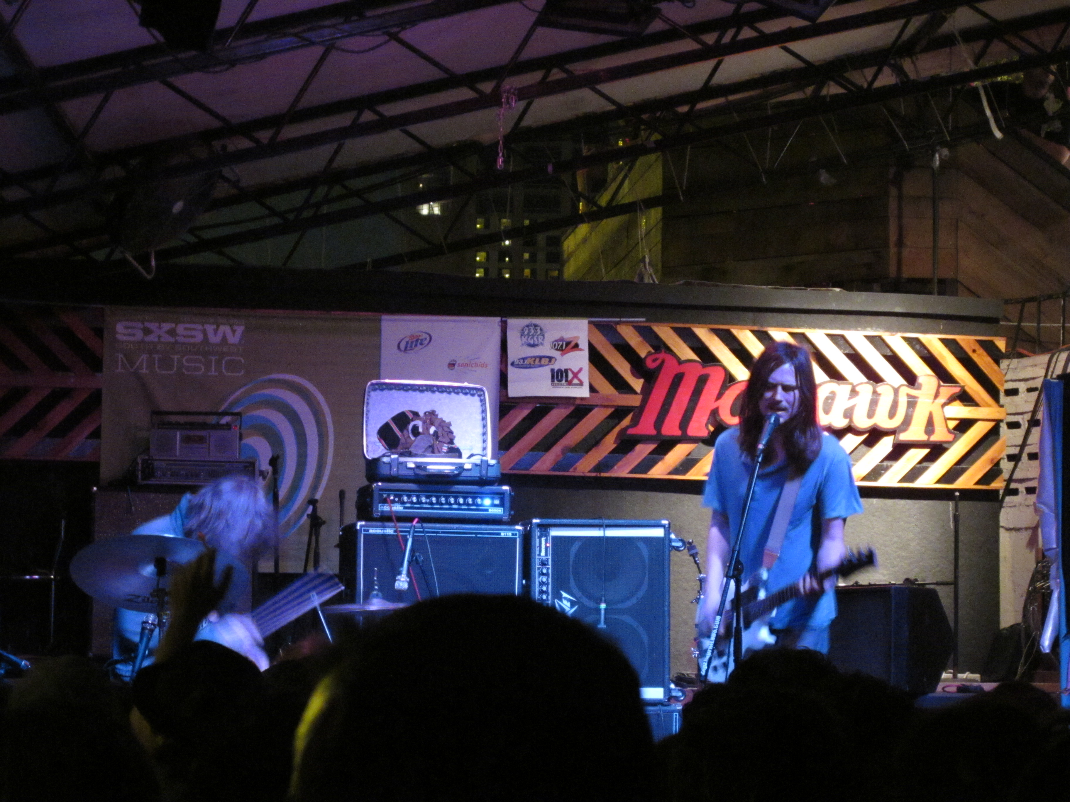 Jeff the Brotherhood - Mohawk's: SXSW.